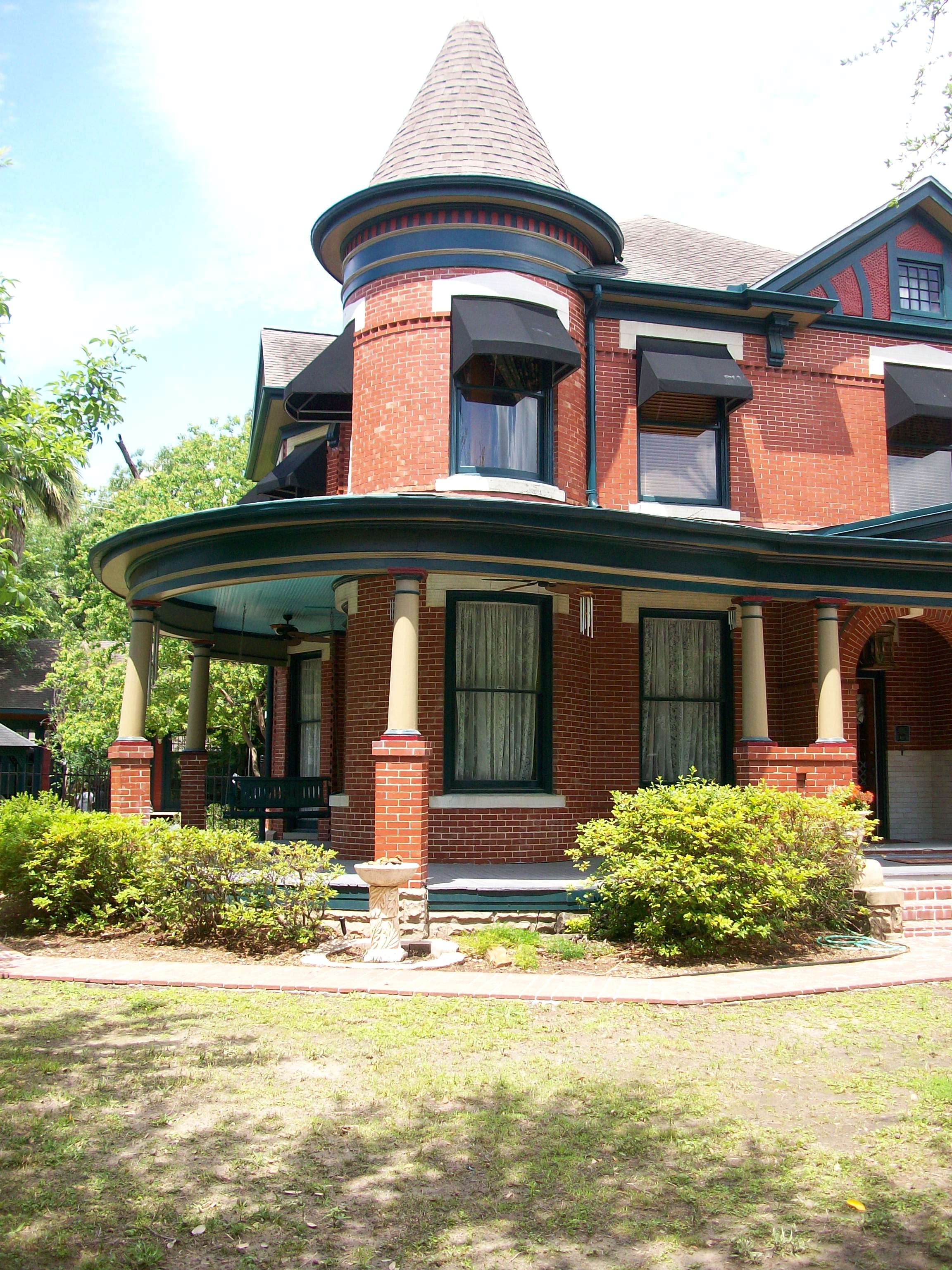 South-side tower